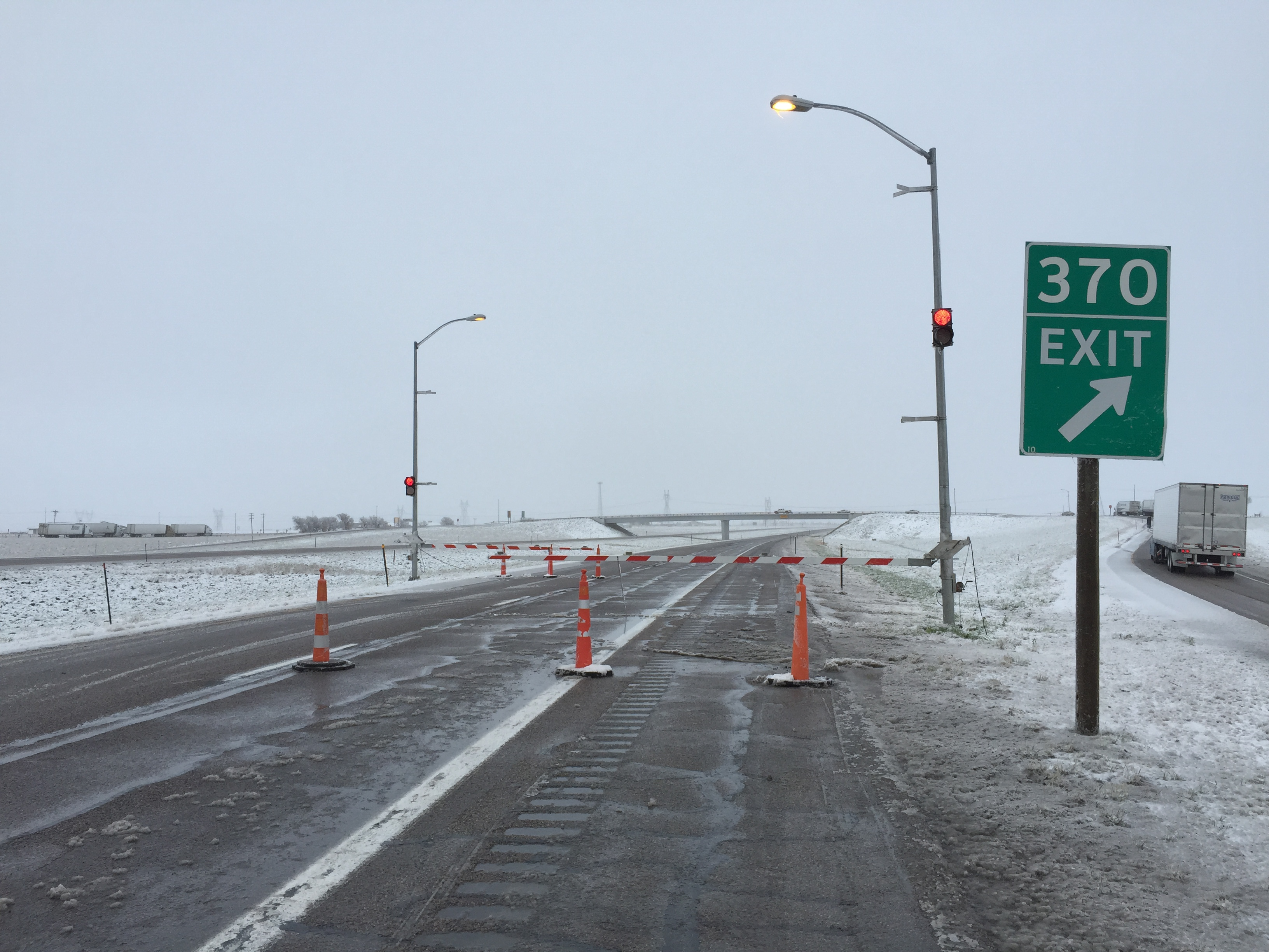 Gate and cones blocking the main lanes of Interstate 80 during a late spring snowstorm at Exit 370 in Archer, Laramie County, Wyoming